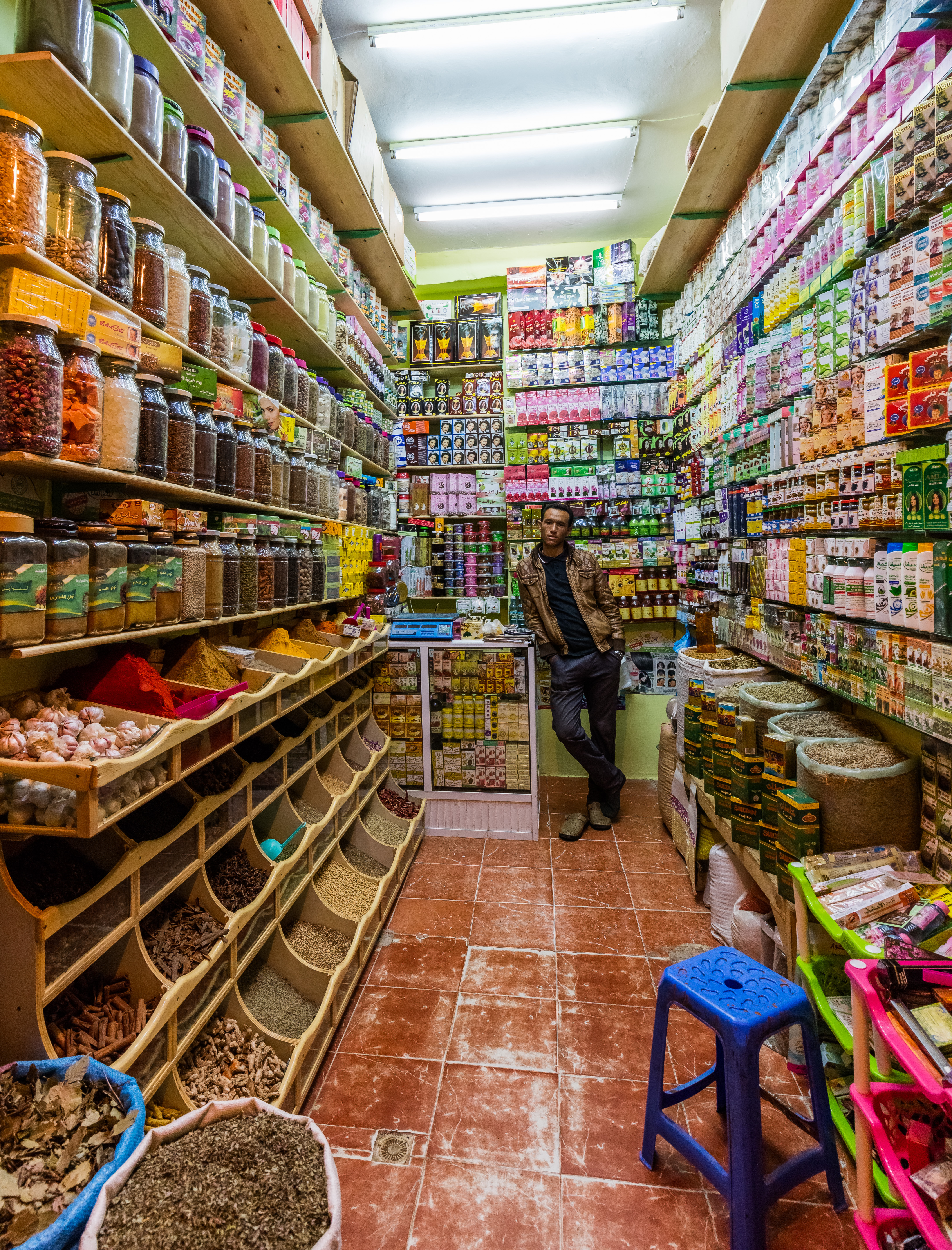 Seller posing in a grocery and cosmetics shop in the April 9th 1947 Square, better known as Grand Socco, Tangier, Morocco.